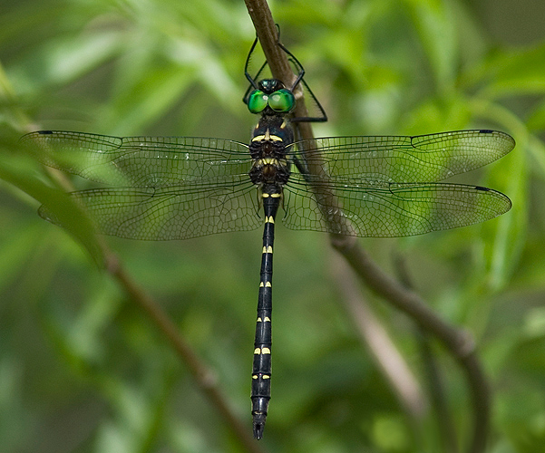 Royal River Cruiser (Macromia taeniolata -- Family: Macromiidae). Along the Miami Canal, south of South Bay, Palm Beach Co., Florida 07/28/2007